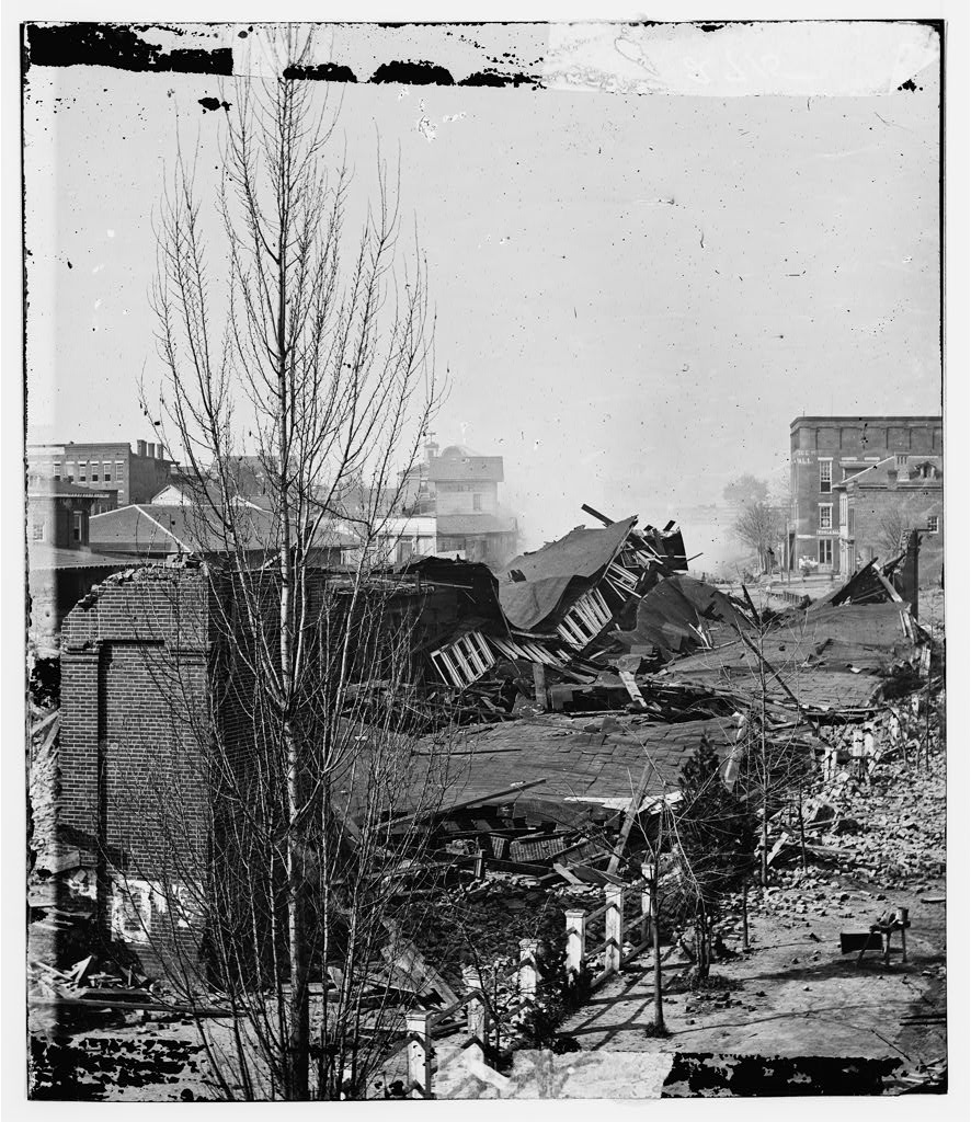 Atlanta, Ga. Ruins of depot, blown up on Sherman's departure.